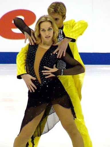 Alexander Shakalov and Olga Akimova at the 2004 NHK Trophy.